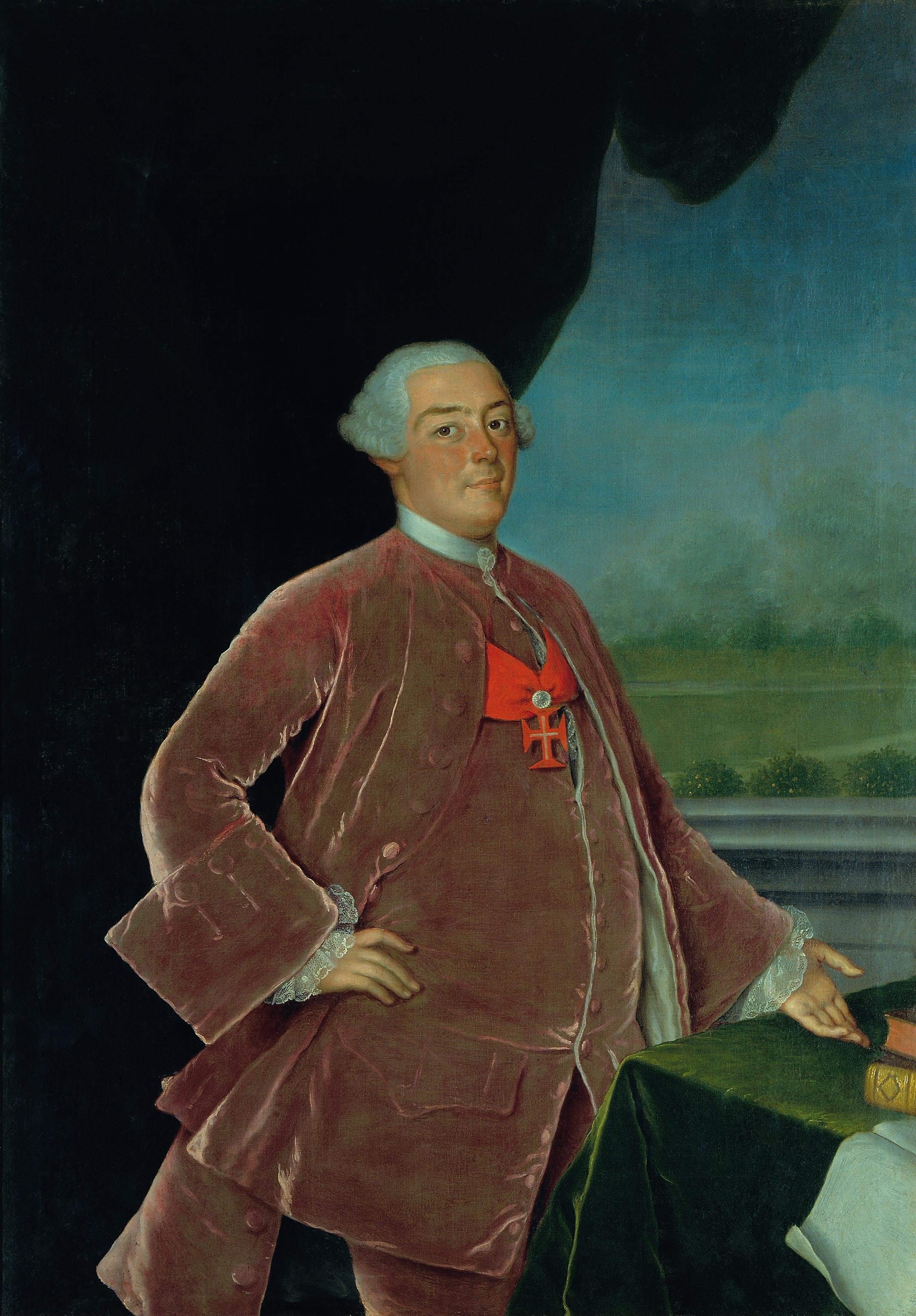 Portrait of Infante Pedro (future King Pedro III). Via Google Cultural Institute. NATIONAL PALACE OF QUELUZ